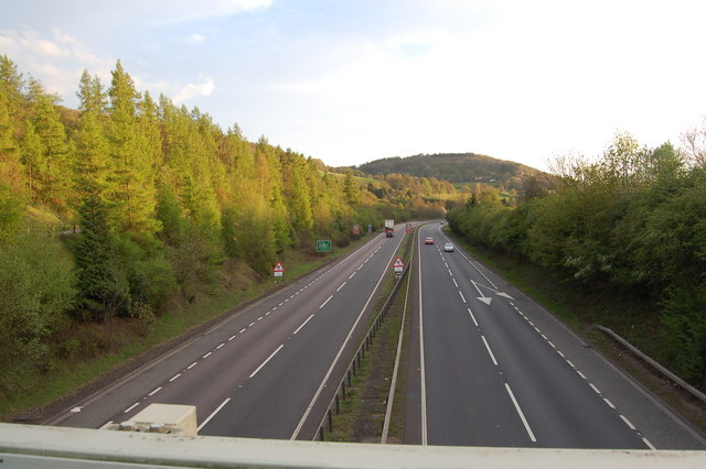 The A40 and Little Doward from the Whitchurch road bridge View looks westwards along both carriageways of the A40 just before it veers right to avoid Little Doward (221 metres).